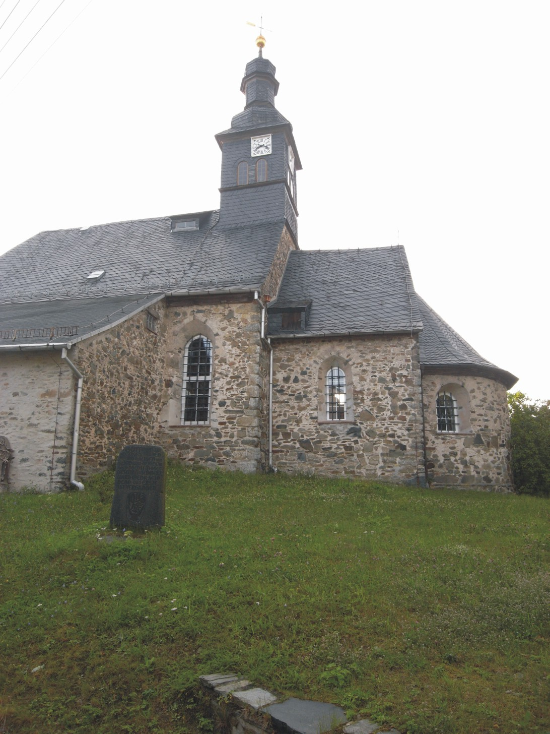 Church in Kulm, municipality Saalburg-Ebersdorf (Thuringia, Germany)